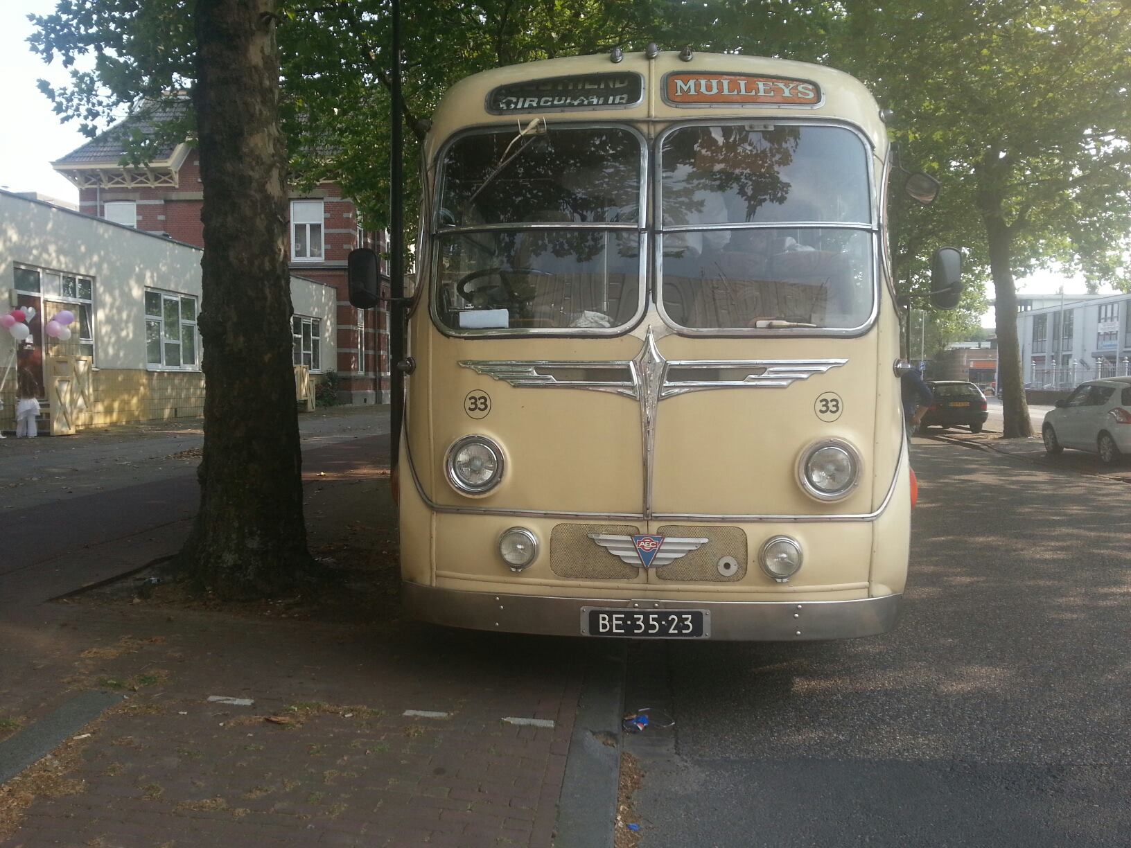 24 august 2012 - in the nabourhood of Oud Diemen, Noord-Holland (The Netherlands)